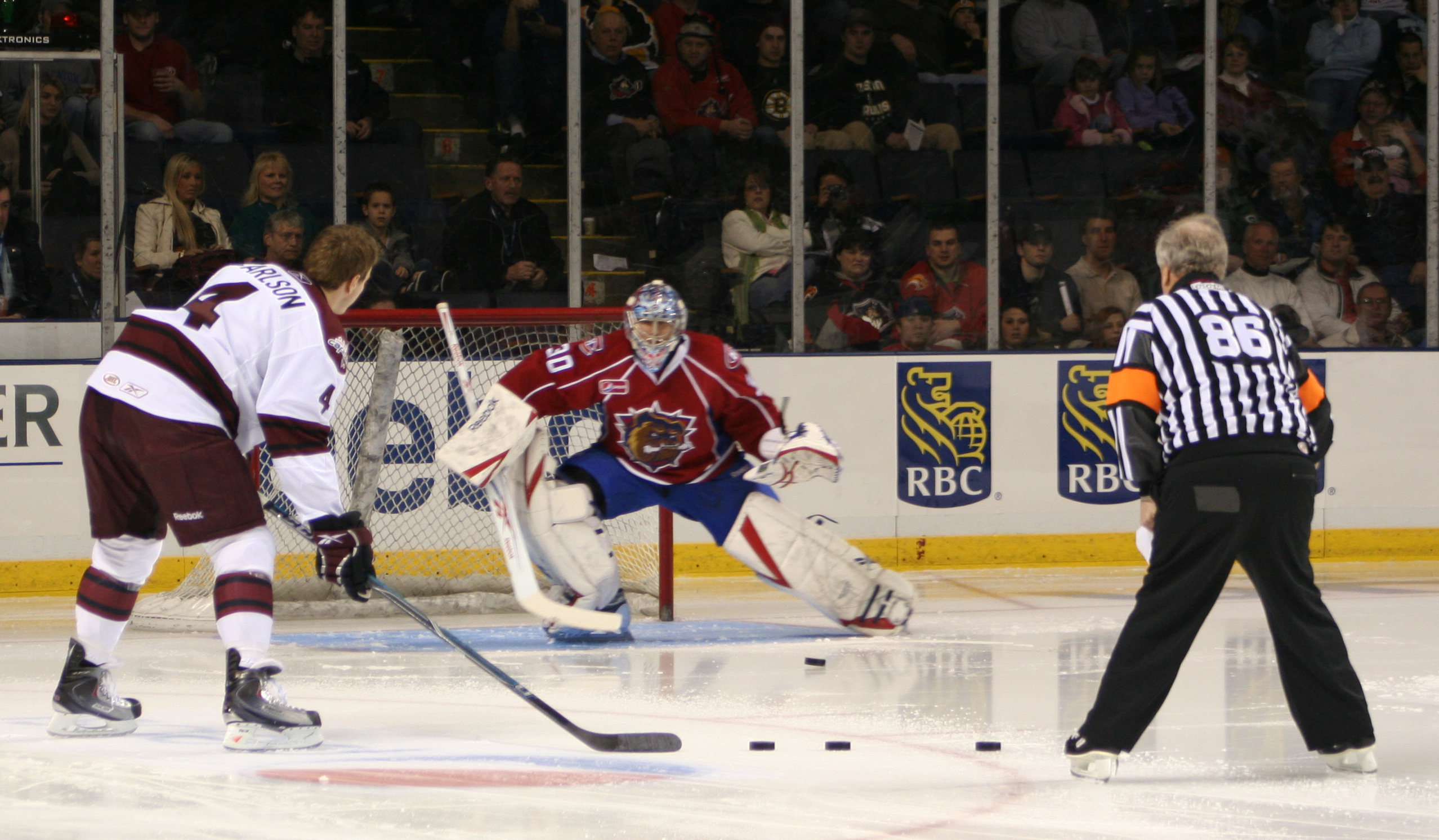 John Carlson and Cedrick Desjardins